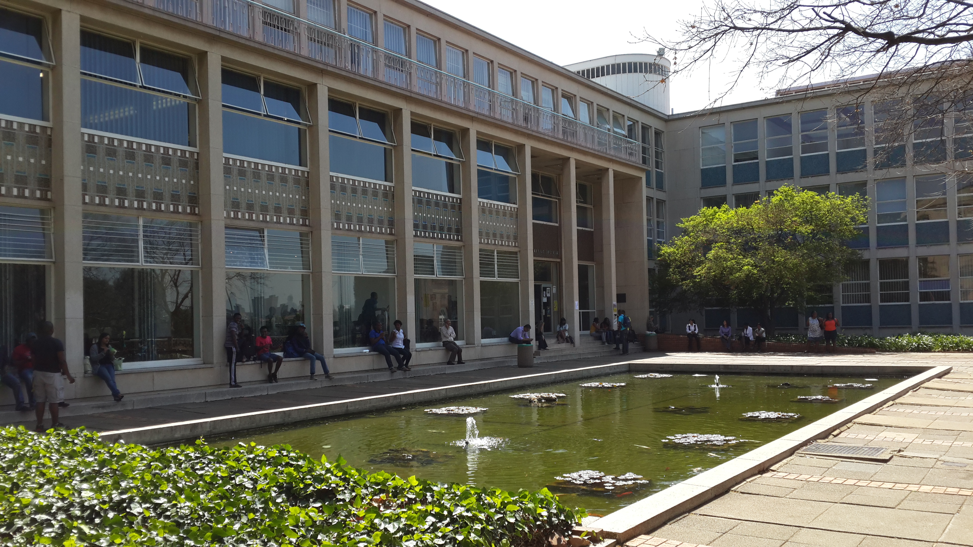 John Moffat Building University of the Witwatersrand